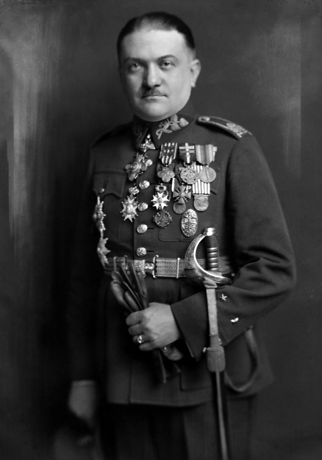 Czech general Alois Eliáš—photo from Langhans atelier